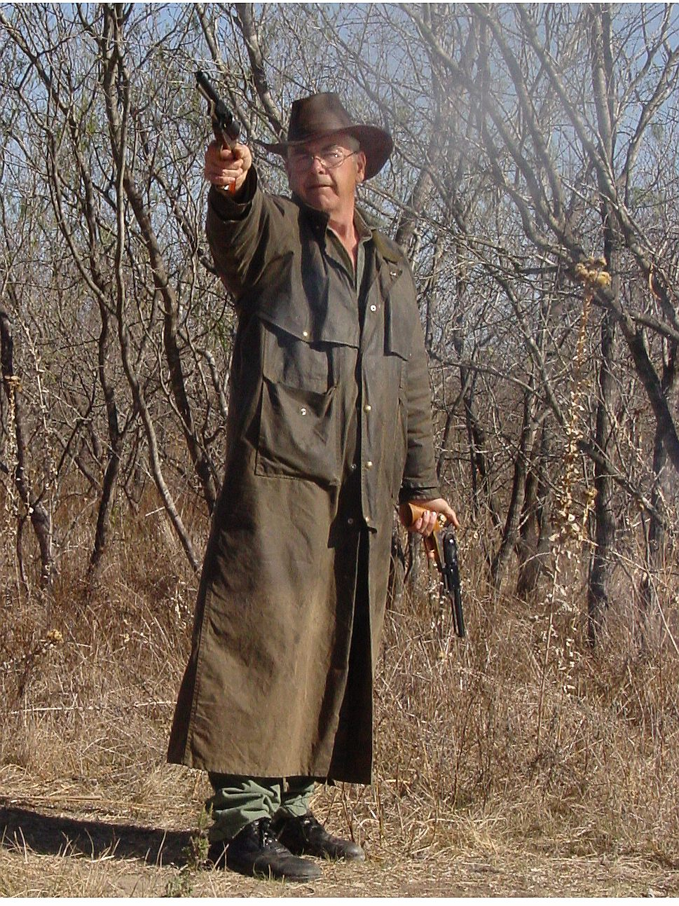 Firing a Brace of Replica Dragoons. Wearing a "duster".